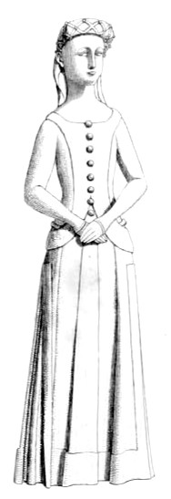 Daughter of Edward III - Mary of Waltham